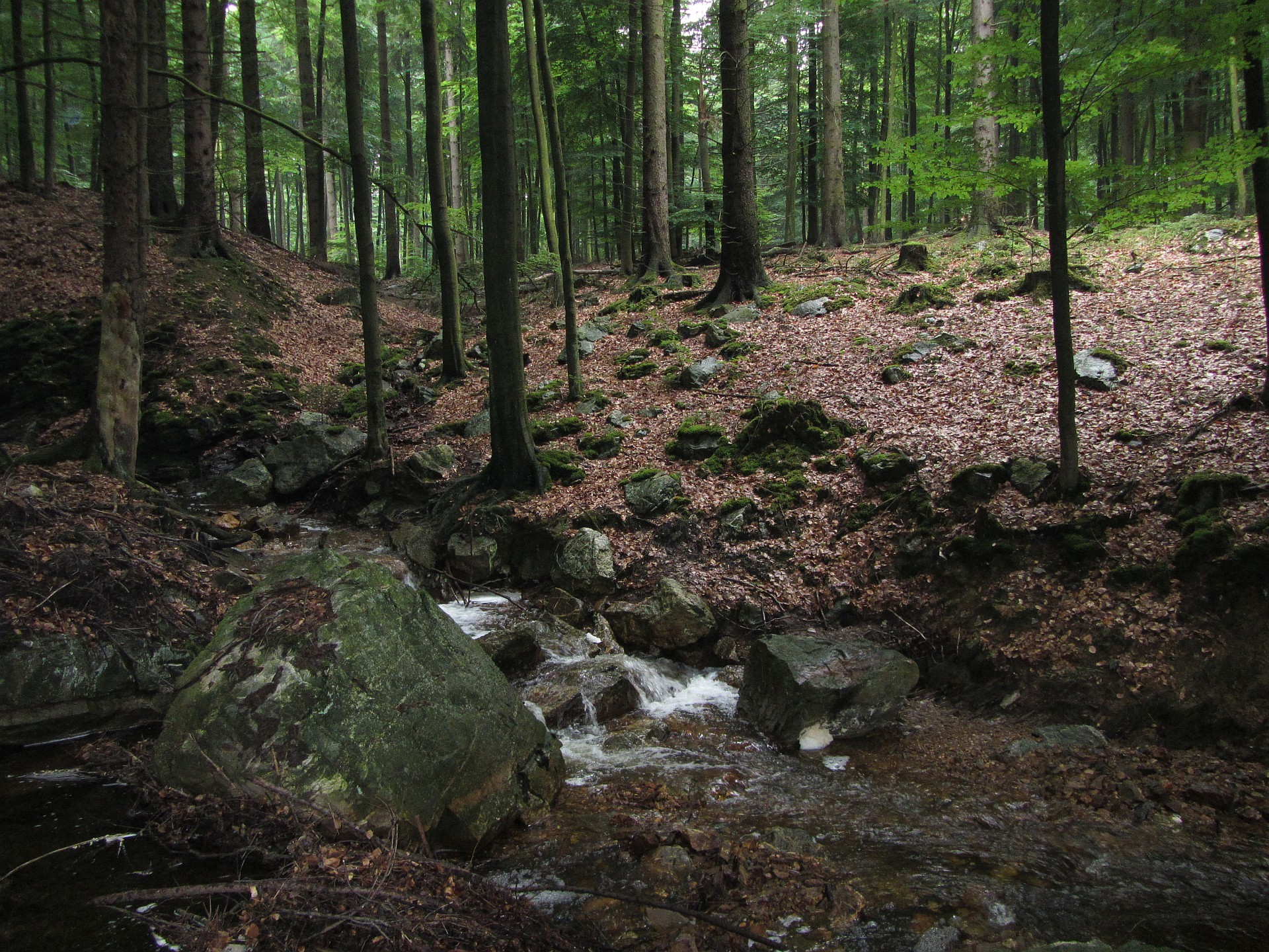 Streams in Huertgen Forest